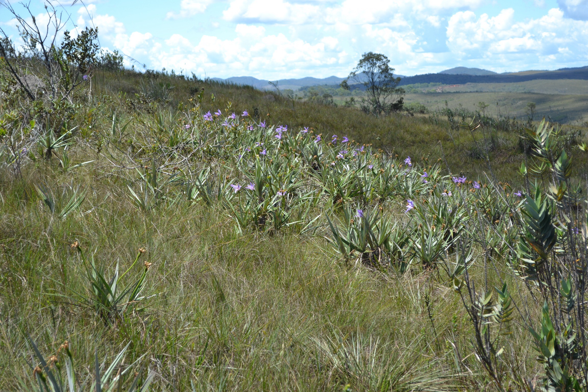 Photo taken at Serra do Cipó in Minas Gerais showing grassy vegetation typically occurring in the campo rupestre